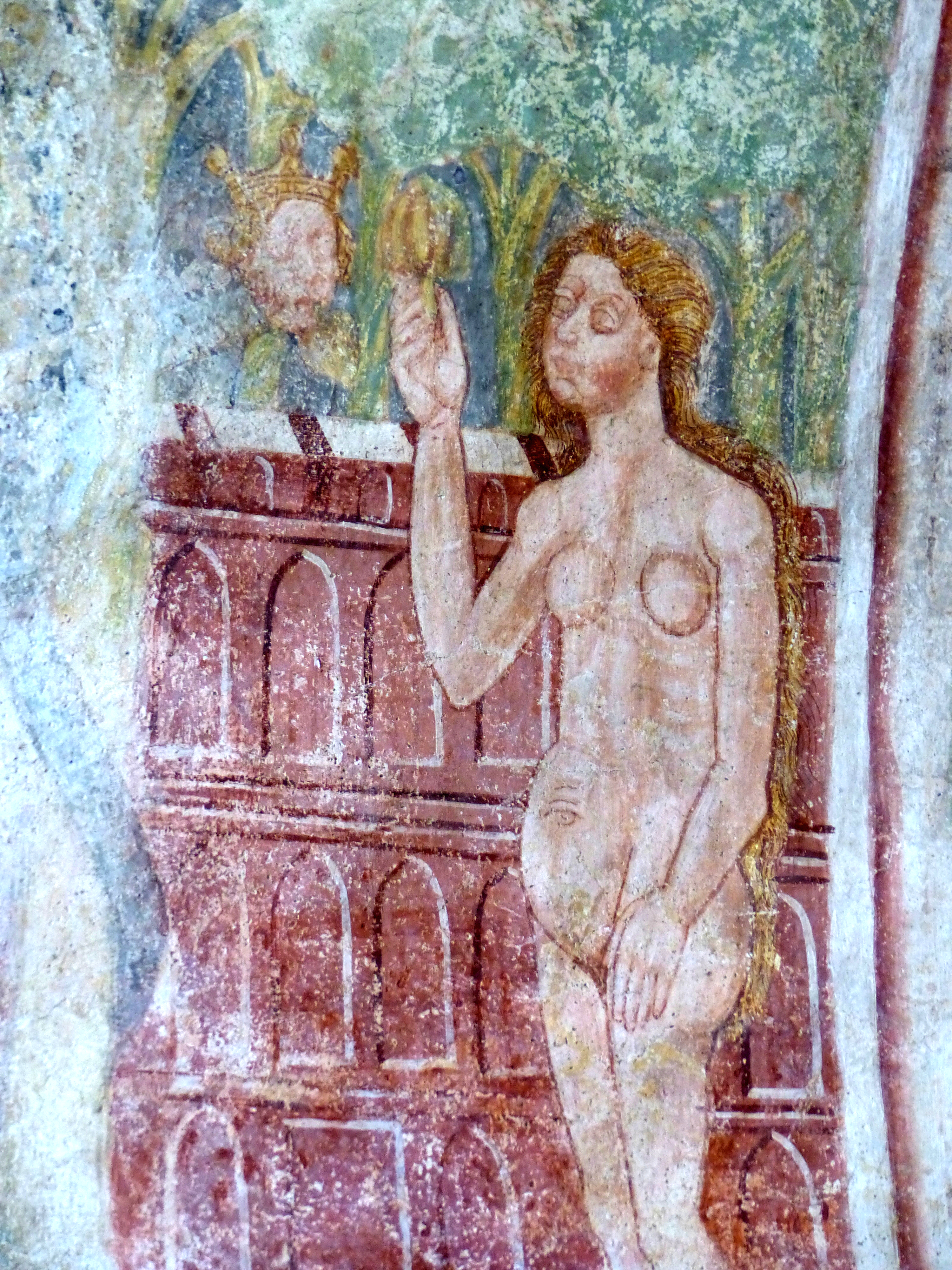 Hrastovlje ( Slovenia ). Holy Trinity church - Fresco ( 1475 ) by John of Kastv showing scenes of the book of Genesis: Eve takes the forbidden fruit.